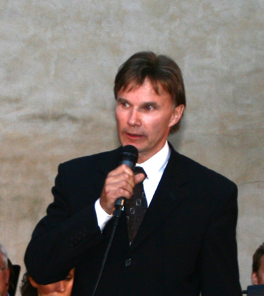 Hannu Koivula, conductor from Finland, when visiting Östgöta Blåsarsymfoniker in August 2009.